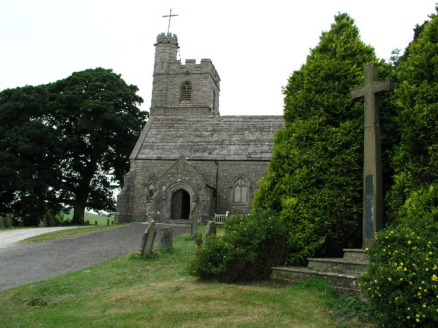 St Patrick's parish church, Preston Patrick, Cumbria, seen form the south. The stone cross on the right is the parish war memorial.